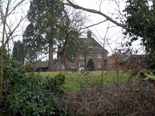 Gossington Hall. I couldn't resist taking a picture of Gossington Hall (through their hedge), because it is a name used frequently by Agatha Christie in her 'Miss Marple' crime novels. This Gossington Hall is a charming early 18th century house.